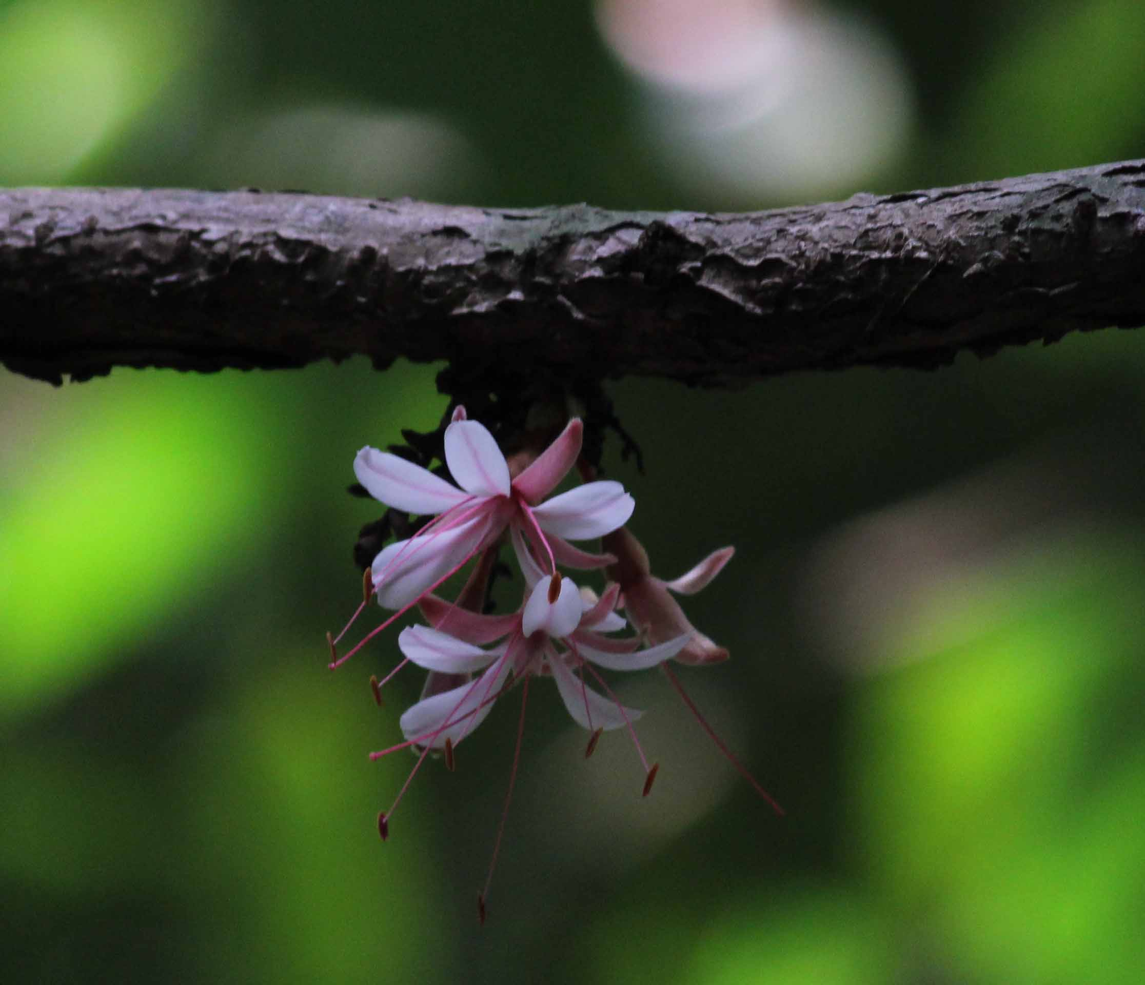 Humbuldtia deccurrens Flower